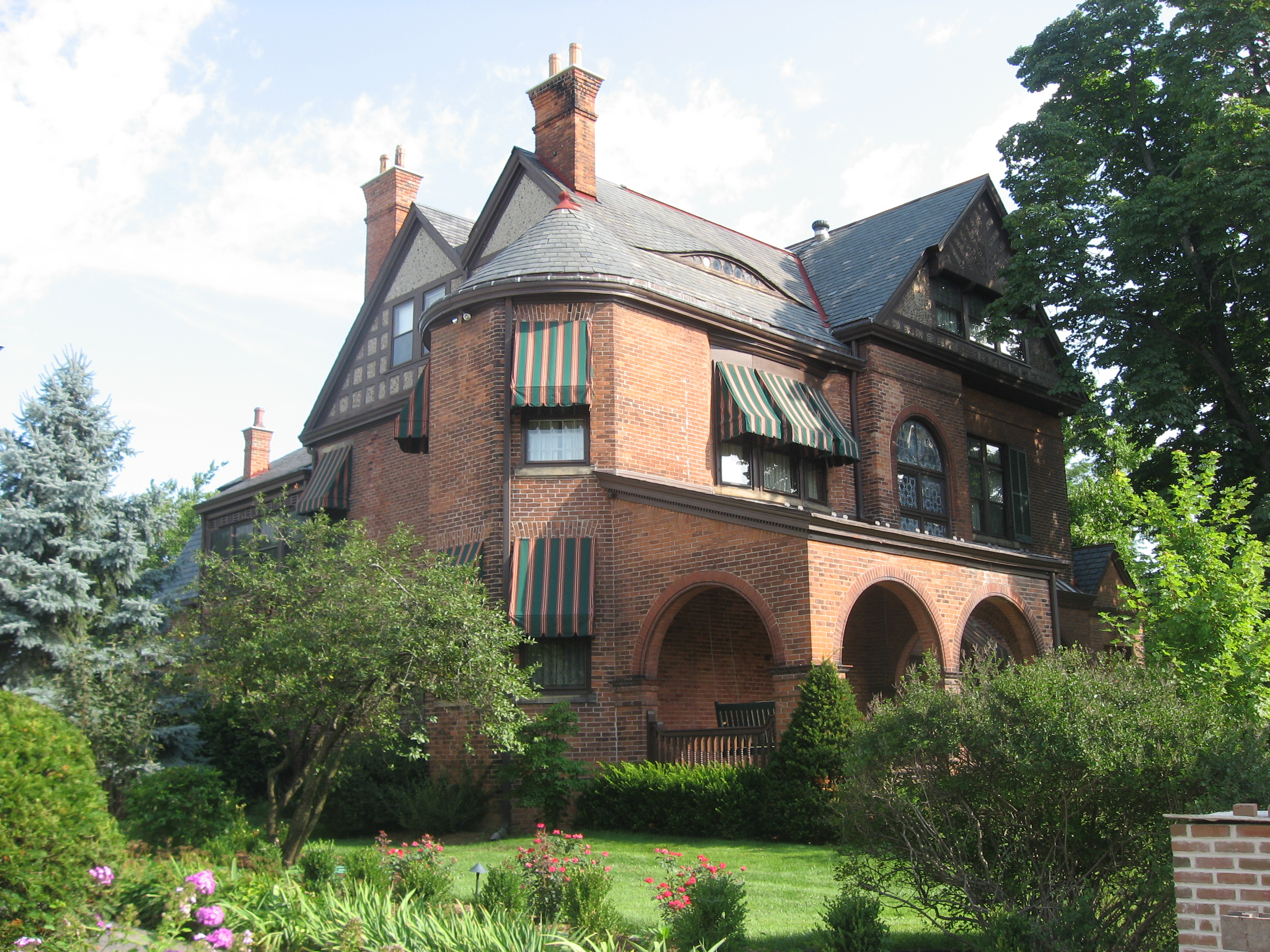 Front of the John B. Tytus House, located at 300 S. Main Street in Middletown, Ohio, United States. Built in 1875, it has been designated a National Historic Landmark, and it is part of the South Main Street District, a historic district that is listed on the National Register of Historic Places.